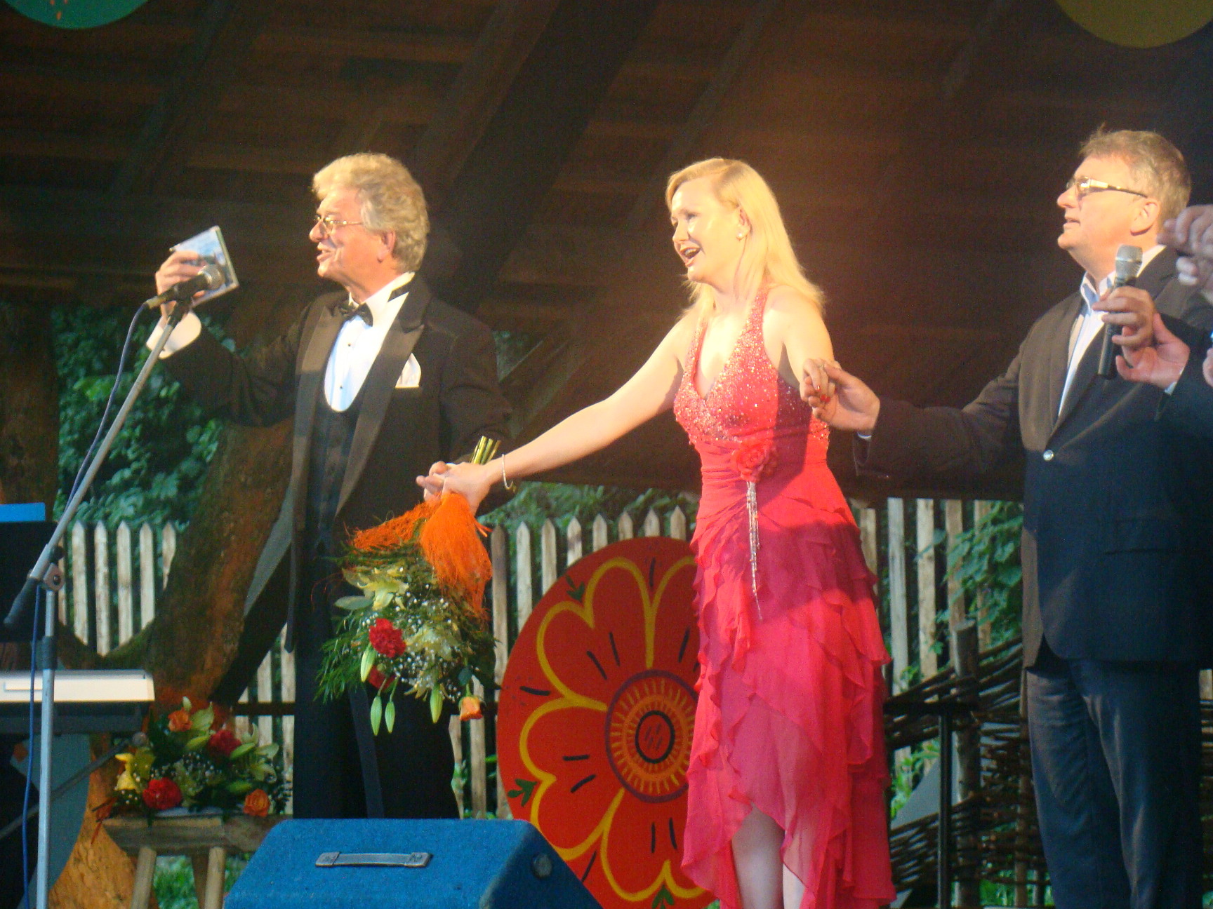 Opera Kameralna in Sanok